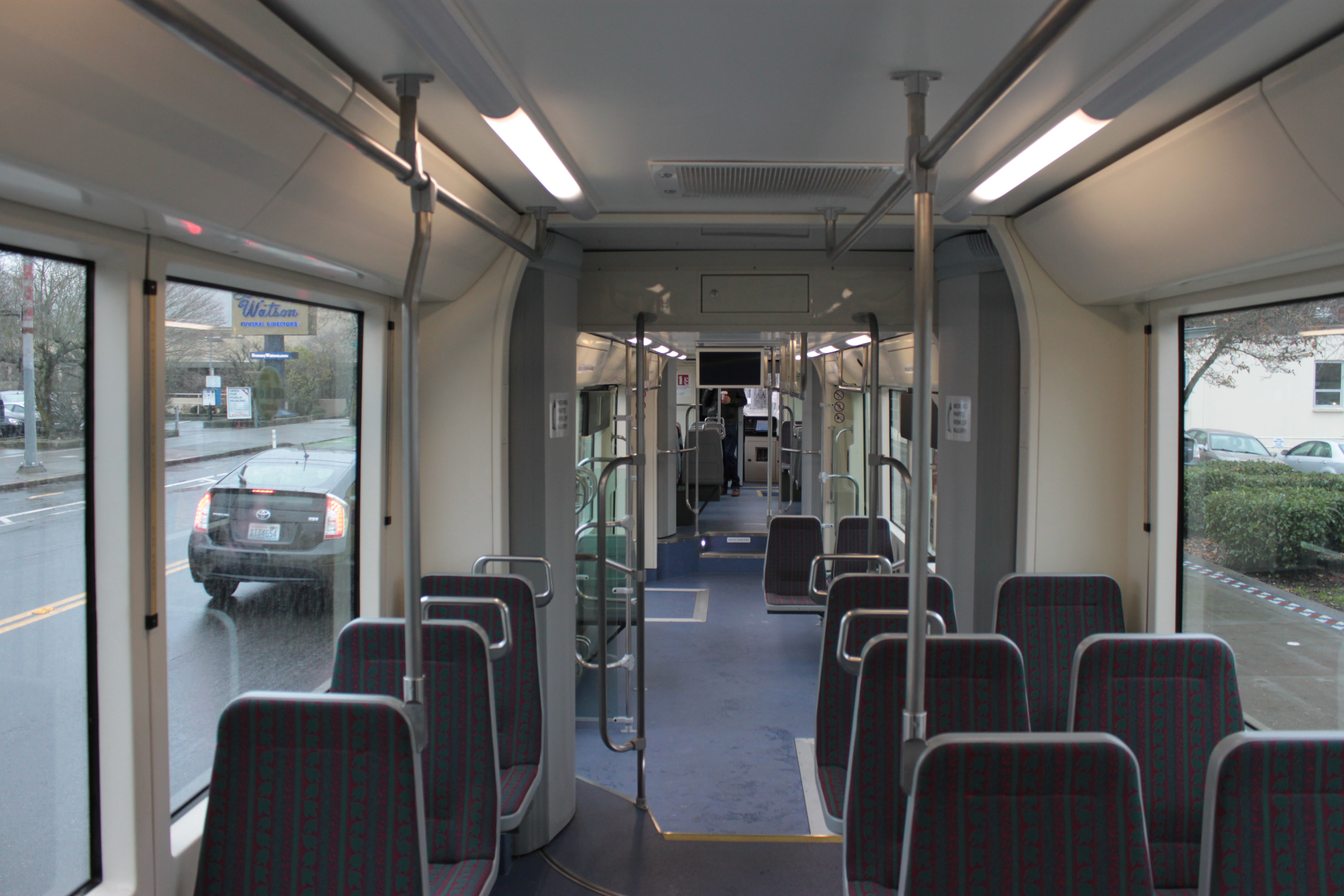 Interior of an Inekon 121 Trio on the First Hill Streetcar in Seattle, Washington, US.